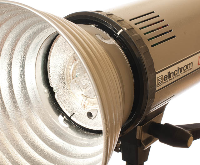 Front view of an Elinchrom 1500S flash unit, showing the bayonet connection for accessories.